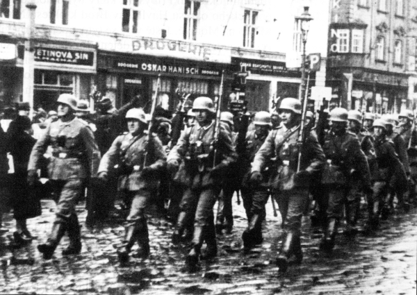 15. March 1939 - German occupation of Bohemia and Moravia - Olomouc